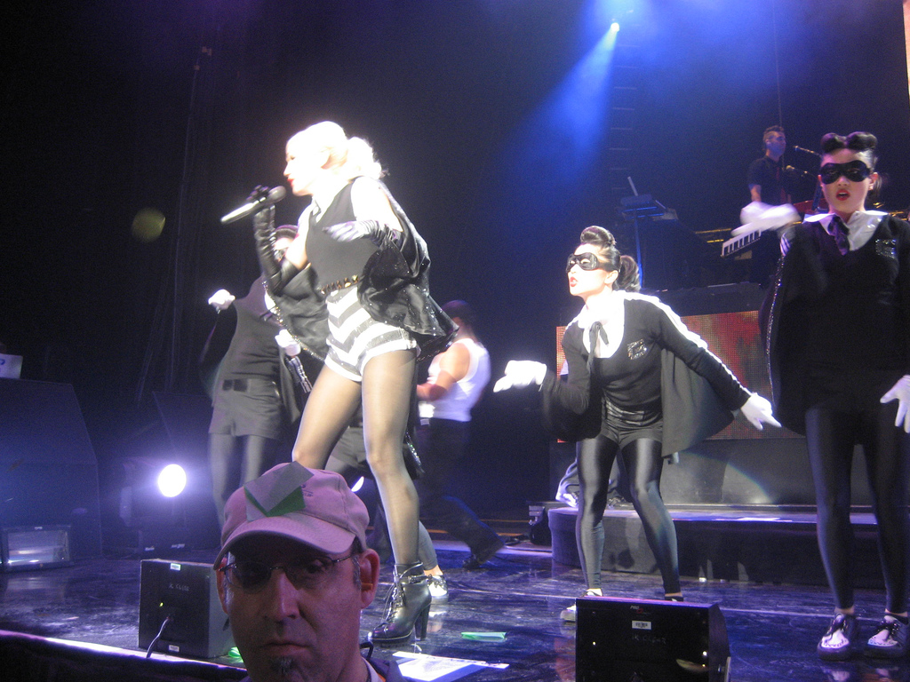 Gwen Stefani performing "Cool" at the Tweeter Center for the Performing Arts in Mansfield, Massachusetts, United Statesgwen